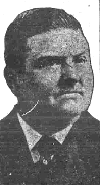 Politician George Curry from an old newspaper. Brightness and contrast adjusted with gimp.